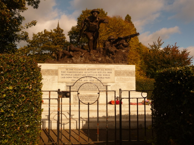 Glasgow: Scottish Rifles memorial Situated just northwest of the Kelvingrove Art Gallery, this memorial is erected 'to the memory of all ranks of the Cameronians (Scottish Rifles) who, to uphold liberty and justice in the world, laid down their lives in the two world wars, 1914-1918 and 1939-1945'.